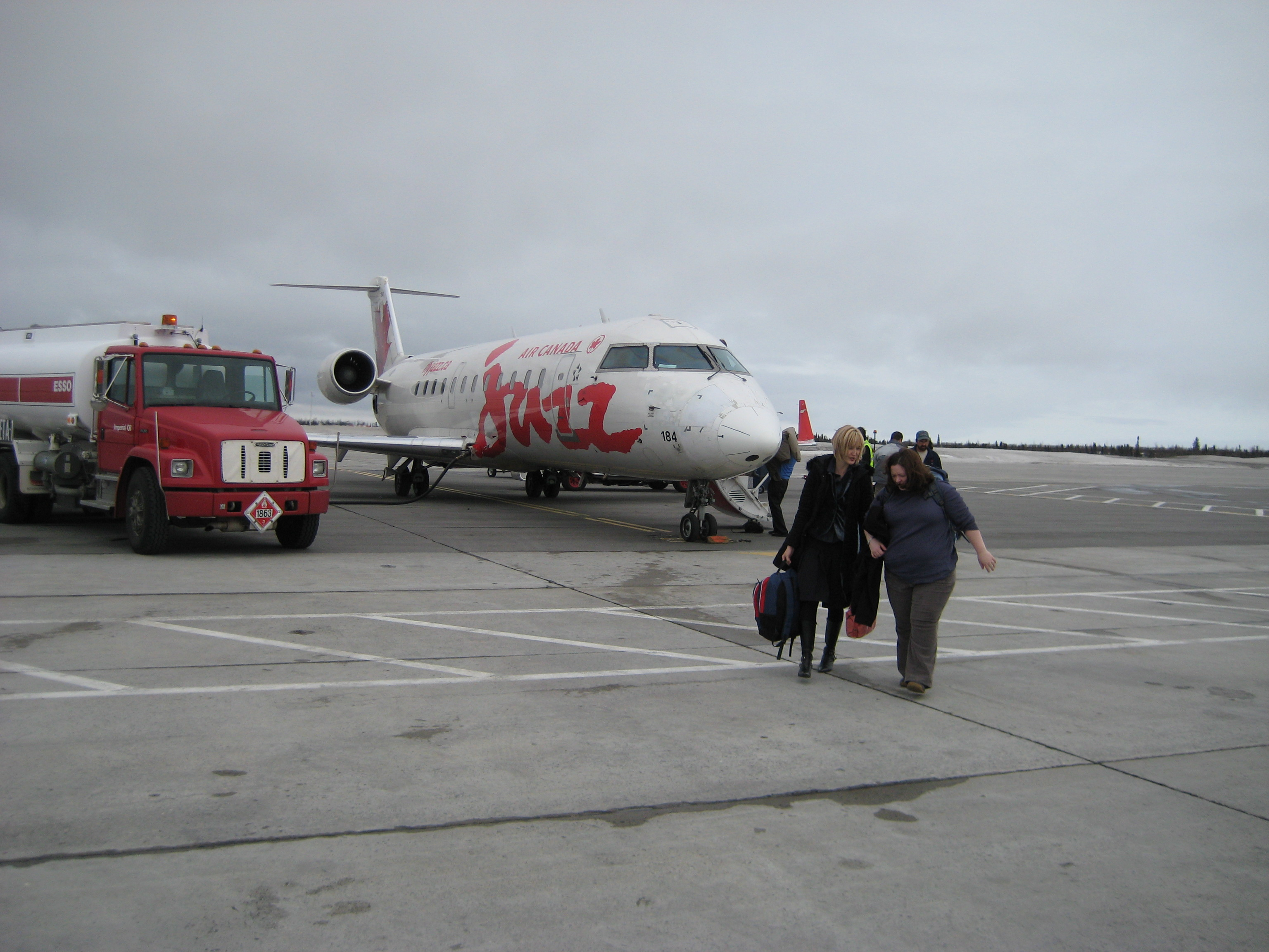 flickr: Arrival in Goose Bay